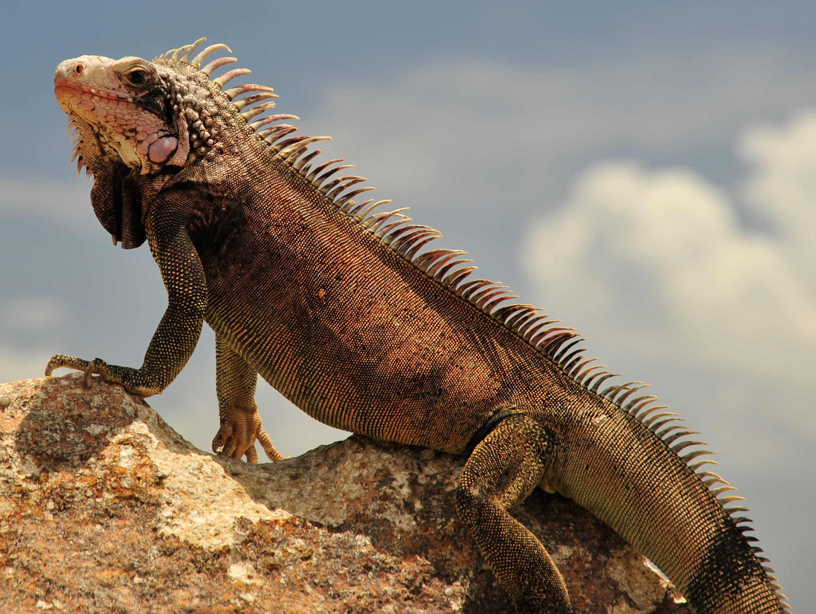 A Green Iguana at Marriott at St. Thomas. This is a cropped version of File:St Thomas Marriott Iguana 9.jpg.